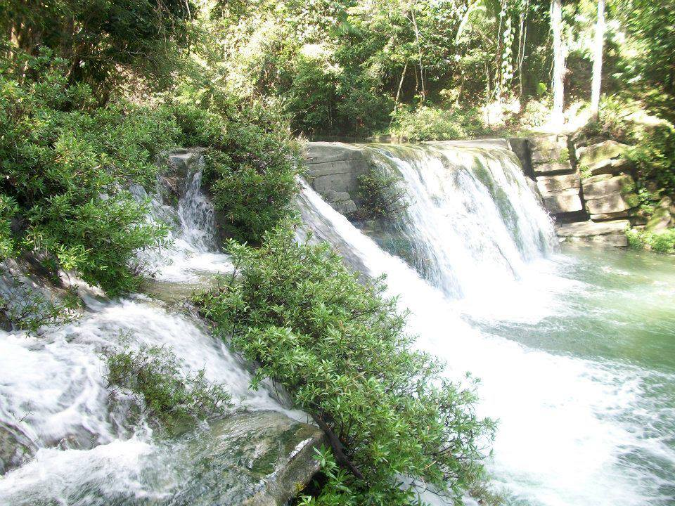 San Antonio Falls in Belize